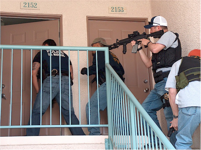 U.S. Marshal Multi-Agency Team Knock and Announce during operation FALCON II